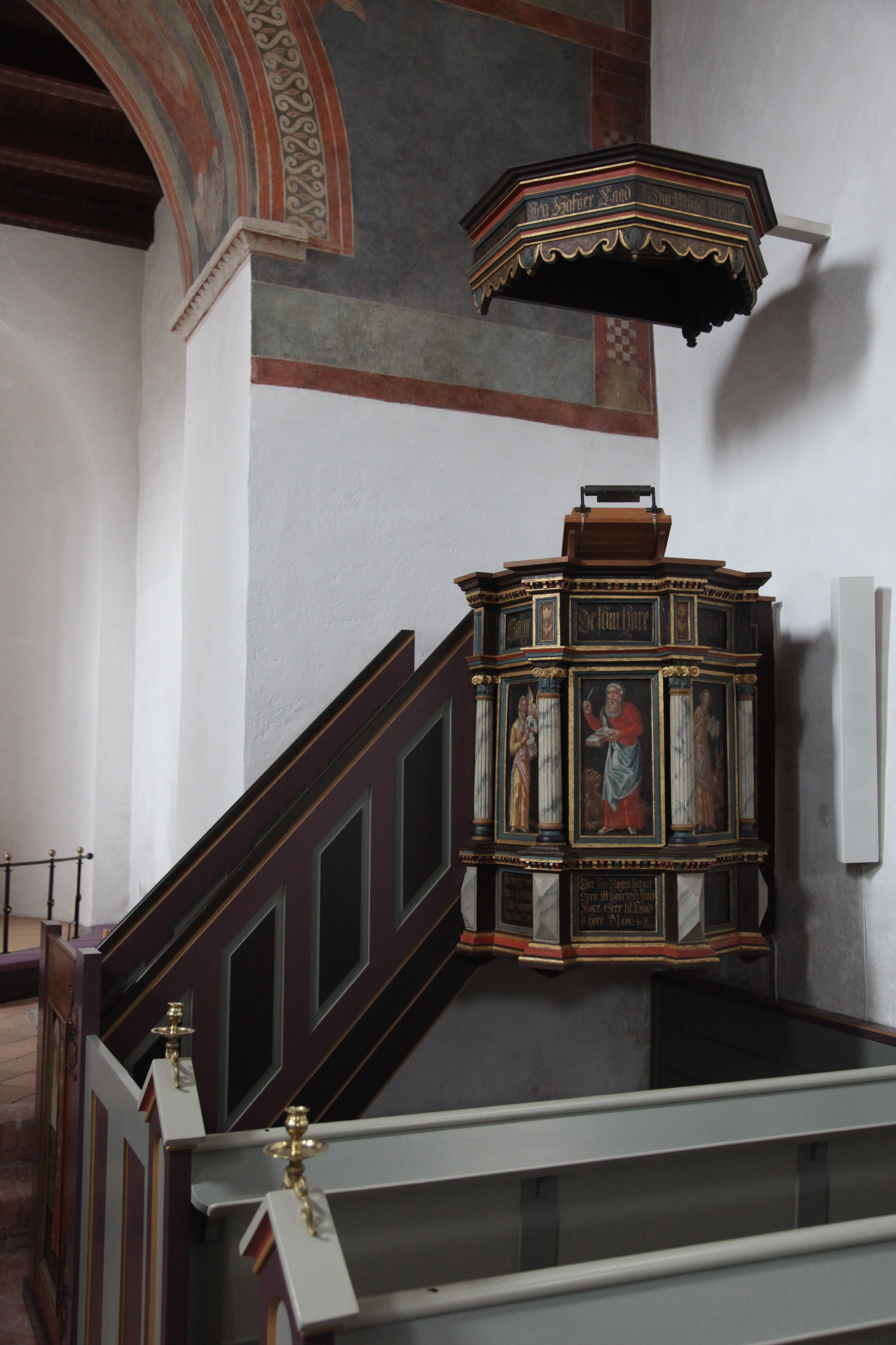 Pulpit of Fjenneslev Church